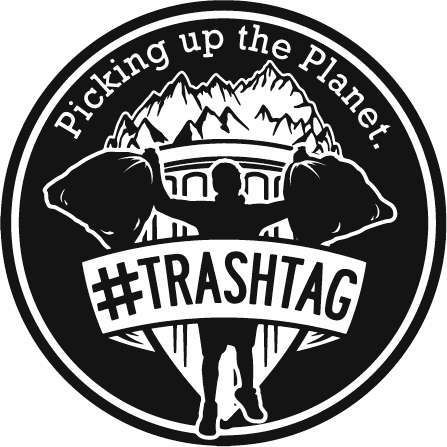 n the Trashtag Challenge, users pick a place filled with litter, clean it up, and post before and after pictures. Volunteers have made beaches, parks and roads trash-free while also raising awareness of the quantity of plastic litter we produce.